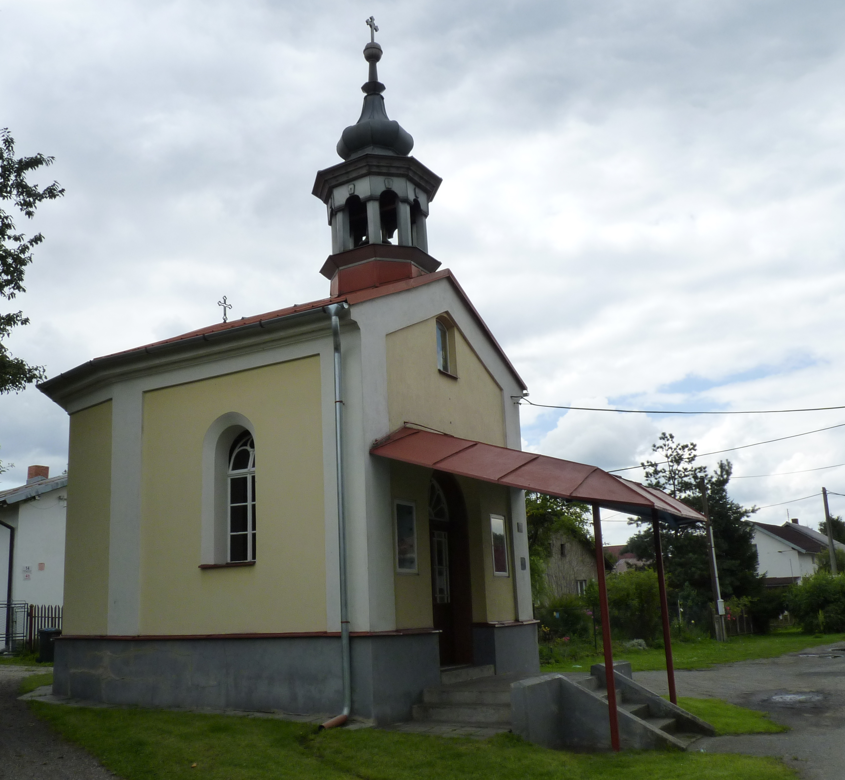 Chapel of Holy Guardian Angels. Karviná, Karviná District, Moravian-Silesian Region, Czech Republic